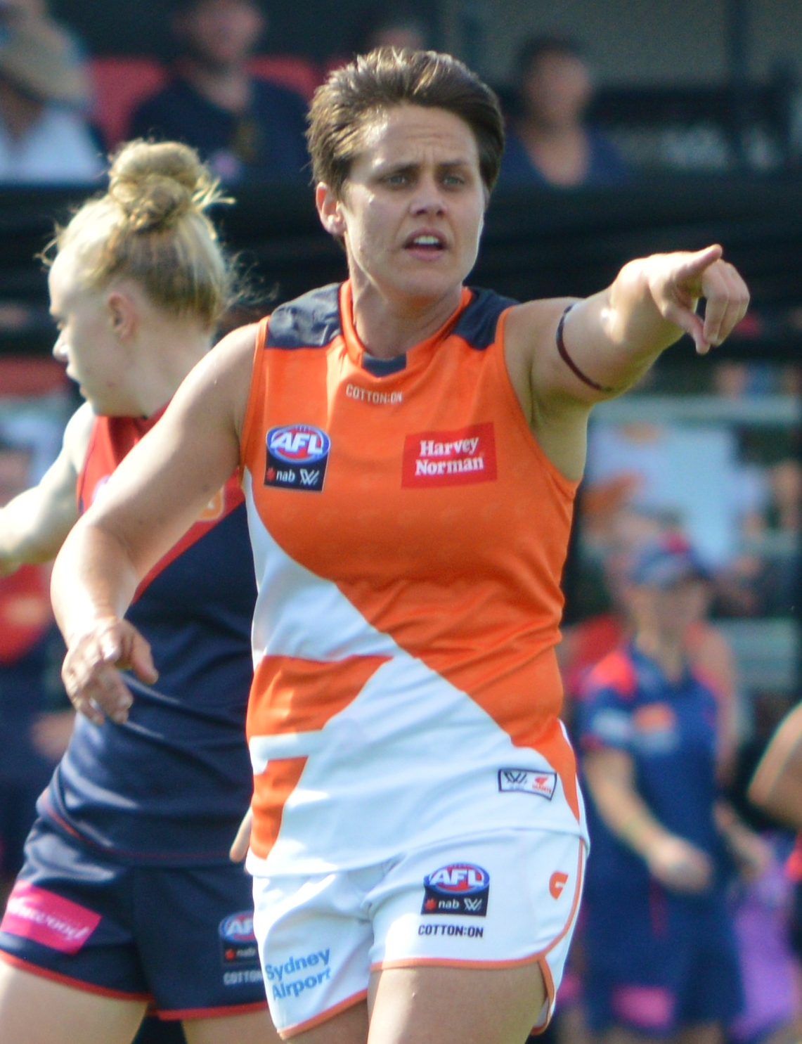 Courtney Gum during the round 1, 2018 AFL Women's match between Melbourne and Greater Western Sydney.